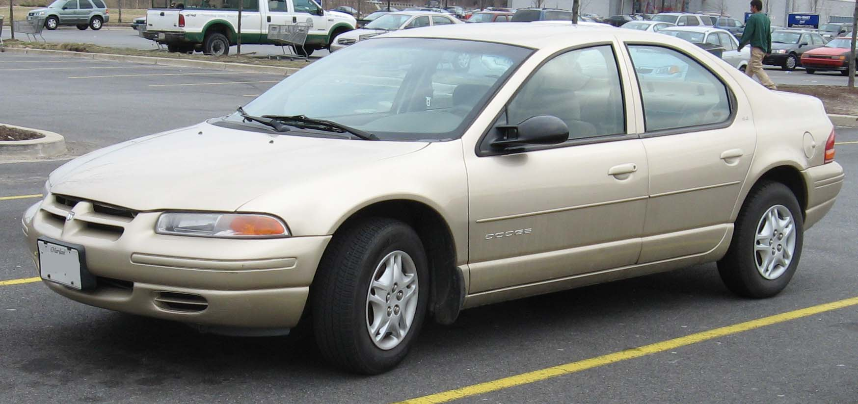 1995-2000 Dodge Stratus photographed in USA.